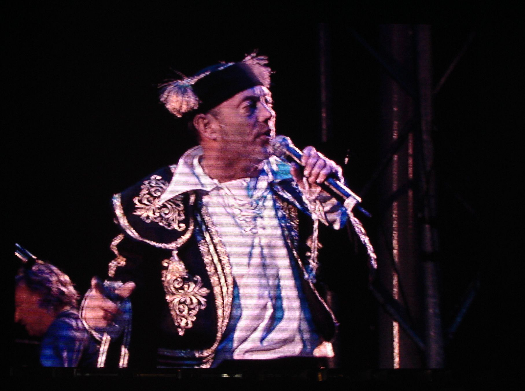 New Order close with World In Motion